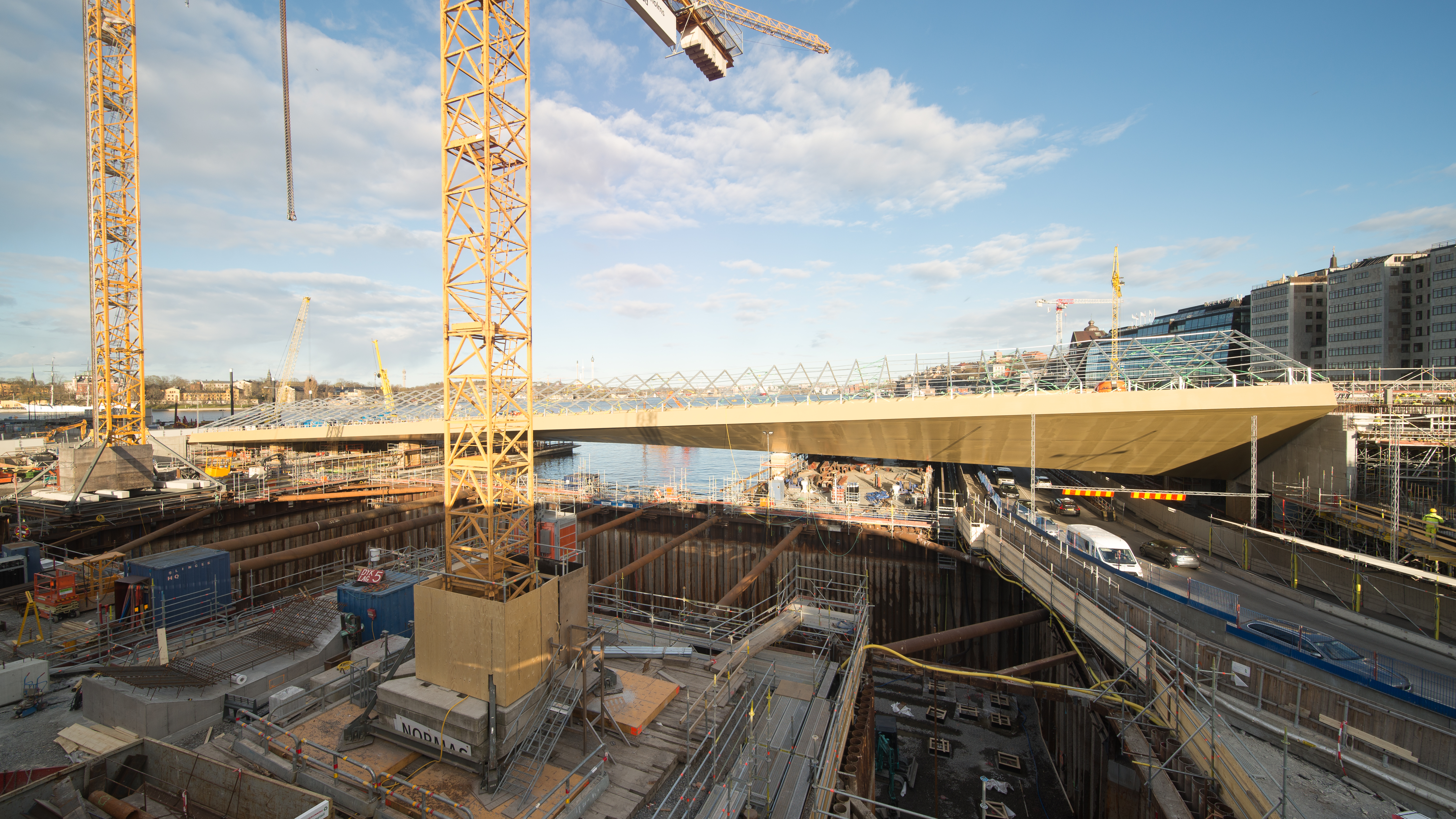 Slussens nya huvudbro